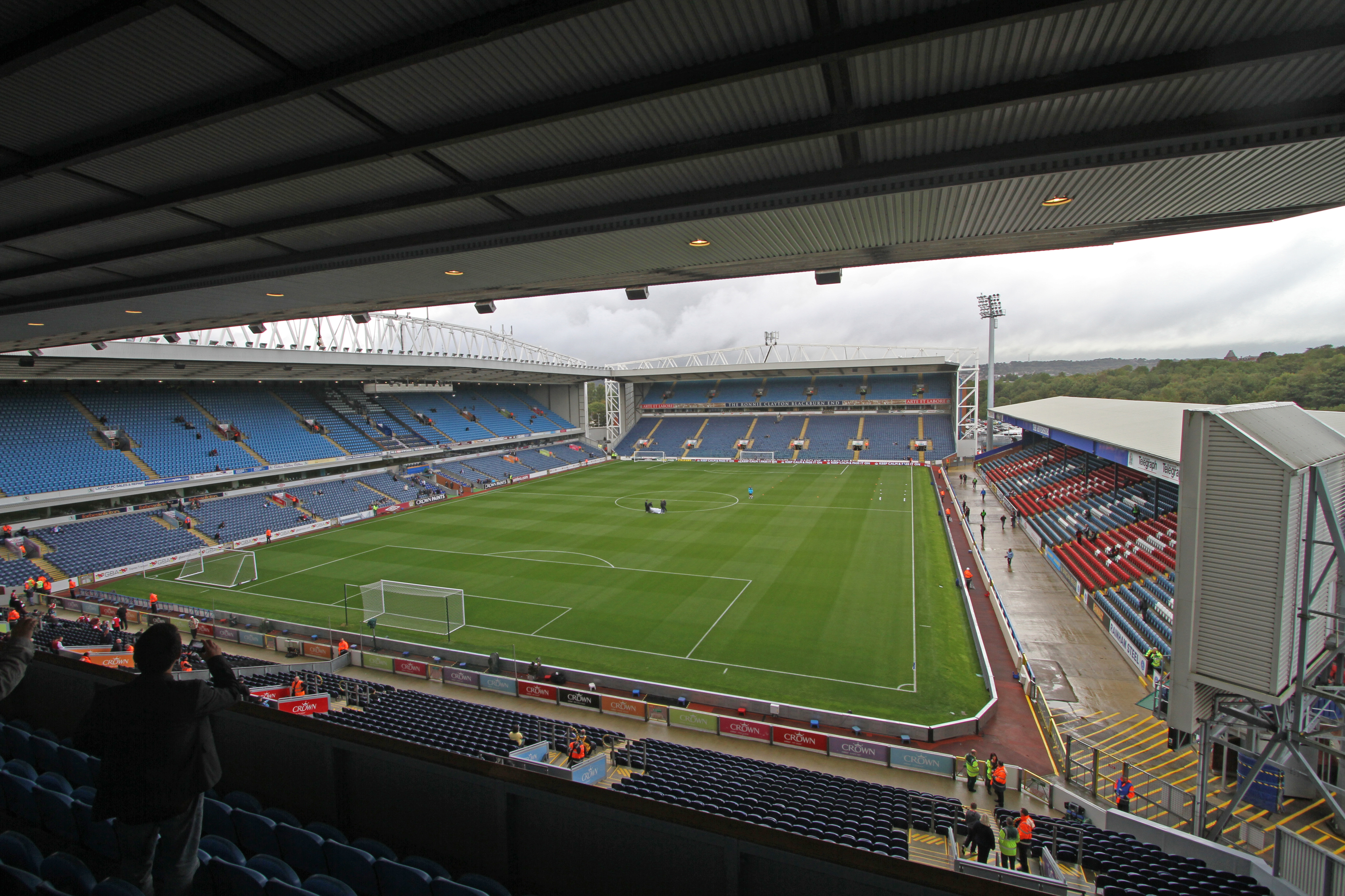 Ewood Park from Blackburn vs Arsenal